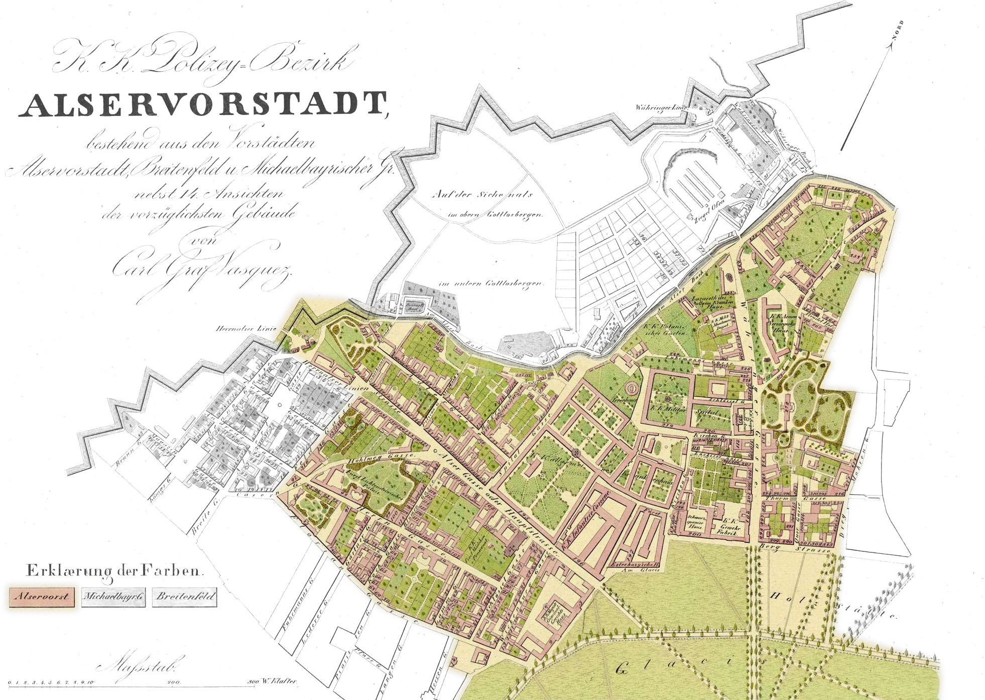 Map of Vienna / Alservorstadt, approx. 1830